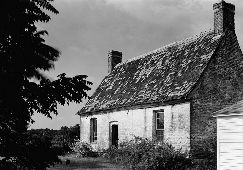 Resurrection Manor, Old Highway, Hollywood vicinity, St. Mary's County, MD built about 1660 to 1720. Designated a National Historic Landmark 1970, destroyed 2002